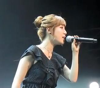 This picture was taken during the SM TOWN LIVE in L.A source: My own work author: Qpidja2 Tag